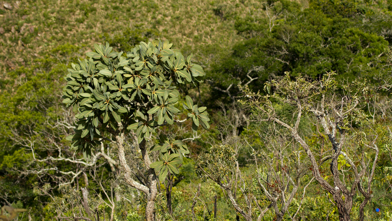 Kielmeyera coriacea at cerrado